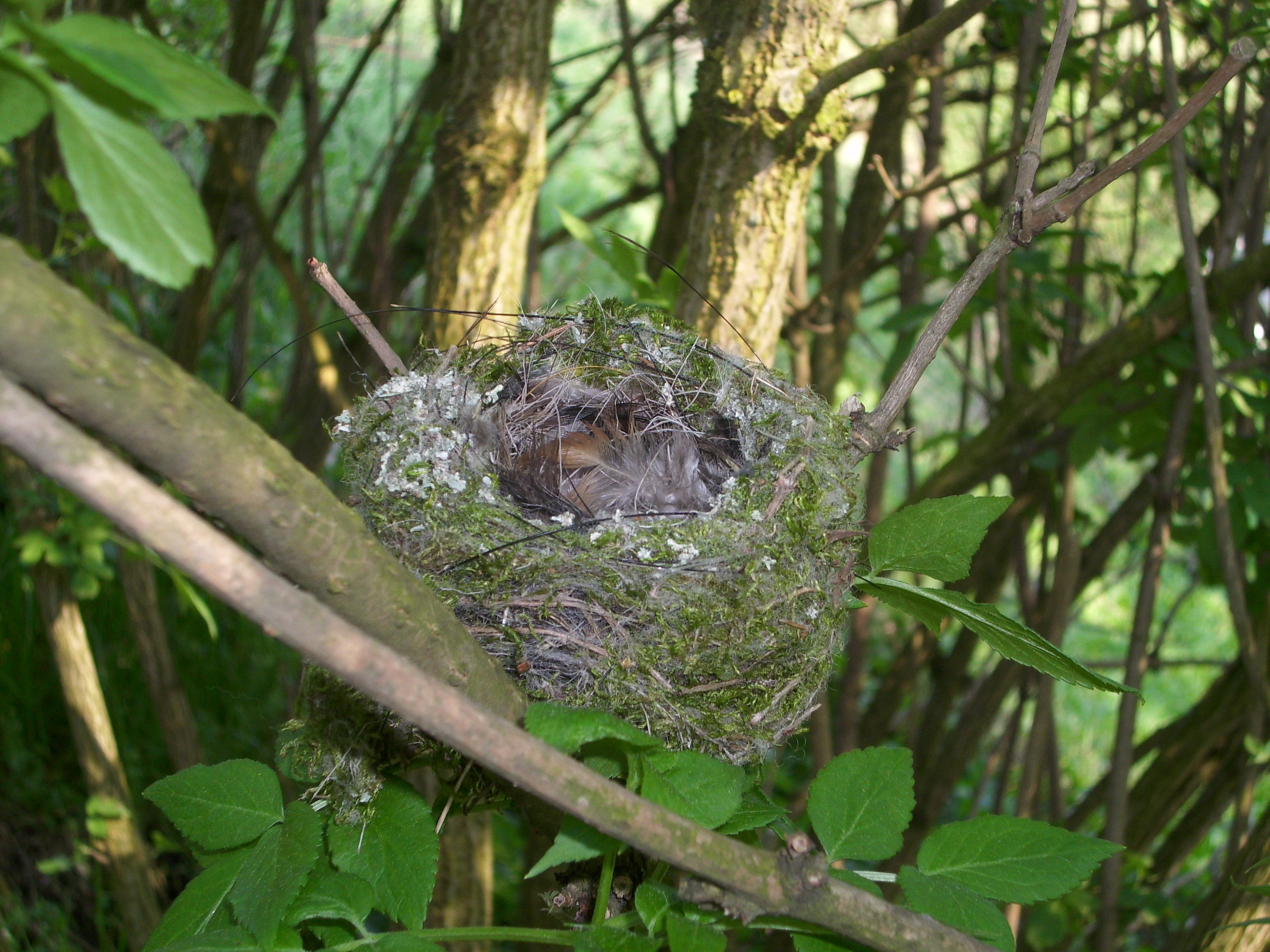 Nest of Chaffinch